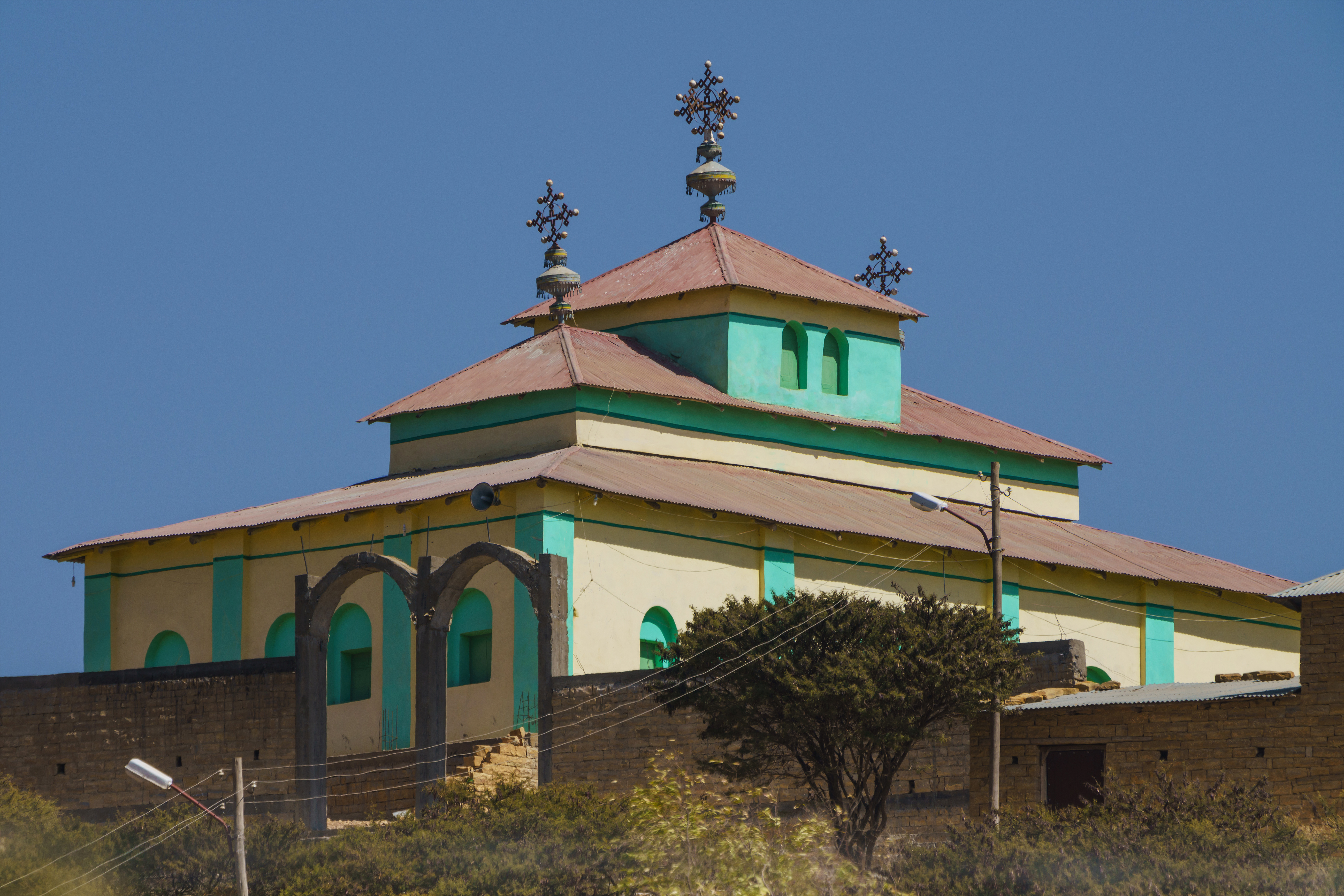 Church in Agula, Tigray Region, Ethiopia